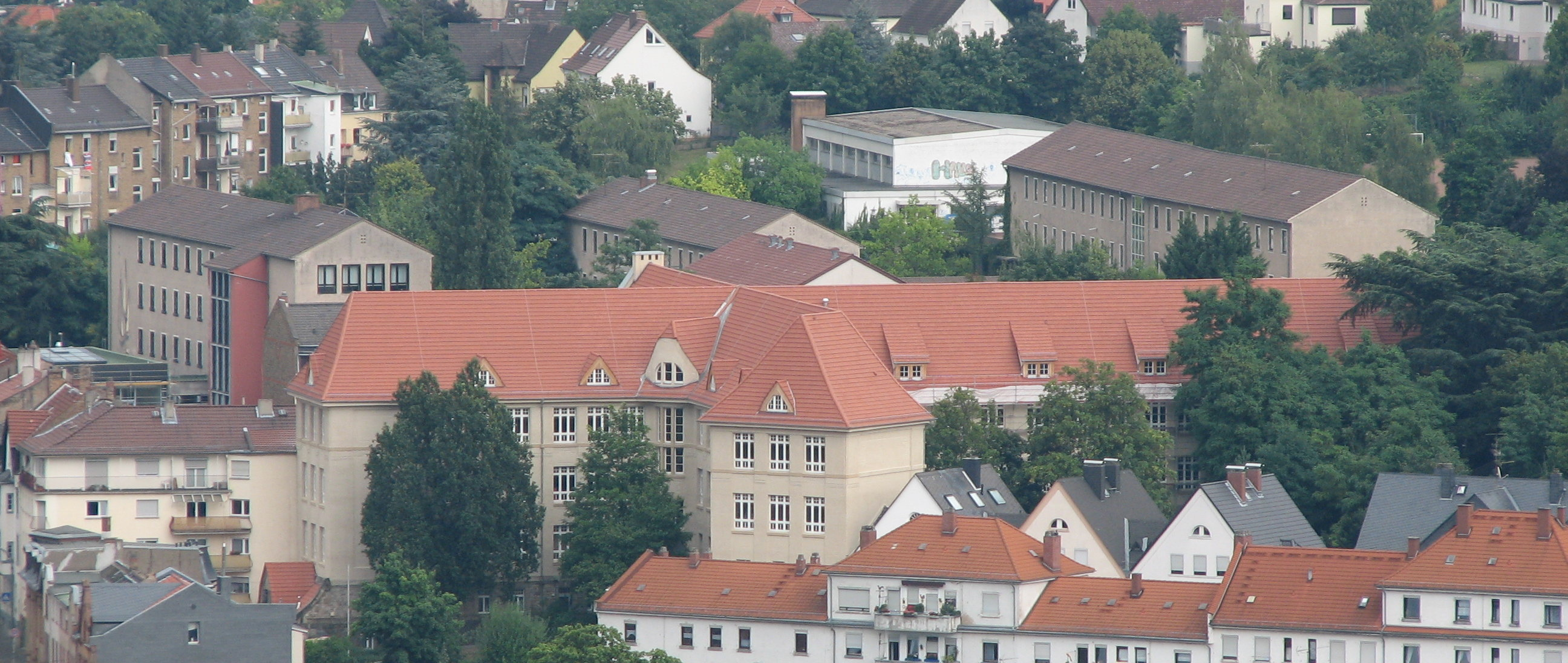 area of the Stefan George Gymnasium after refurbishment in 2008